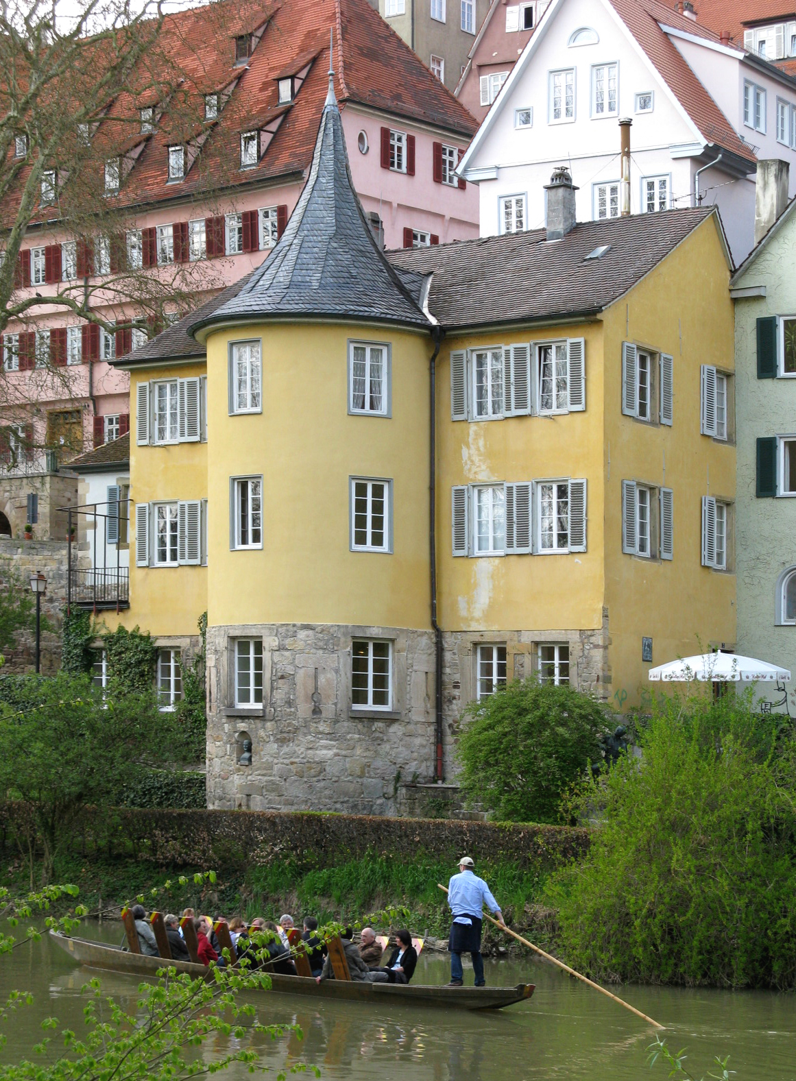 Hölderlinturm at Tübingen (Germany) with a "Stocherkahn" going by.